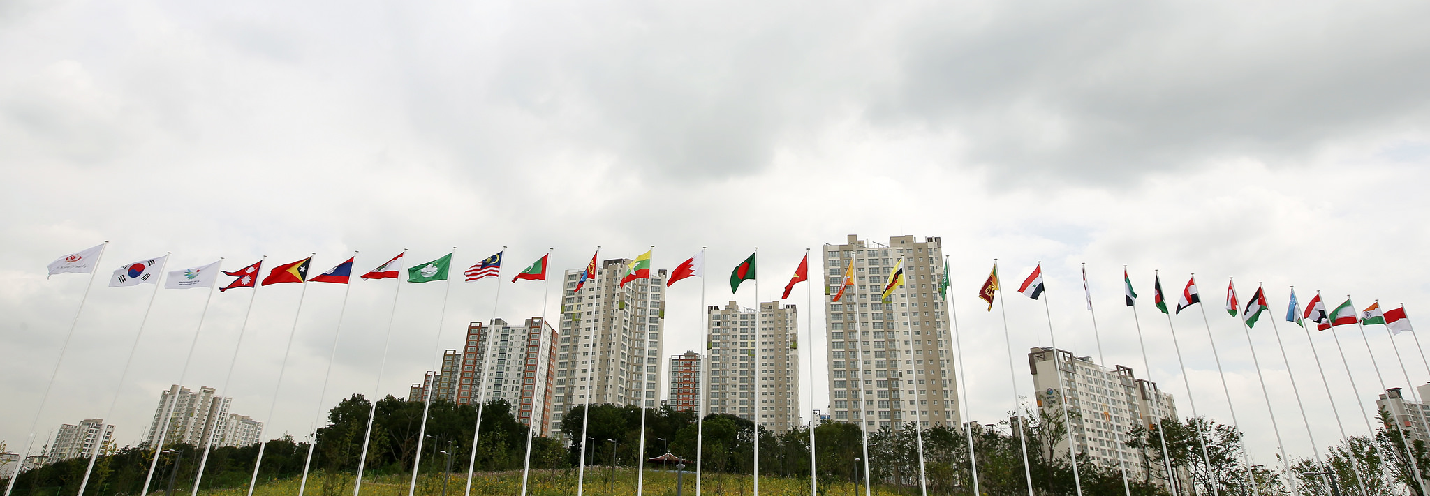 Incheon Asiad Park